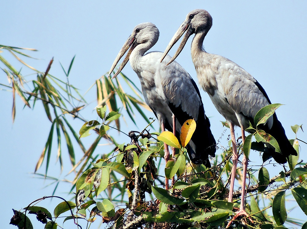 Asian Openbill Storks Near Freshwater Marsh In Mangaon, MH, India.